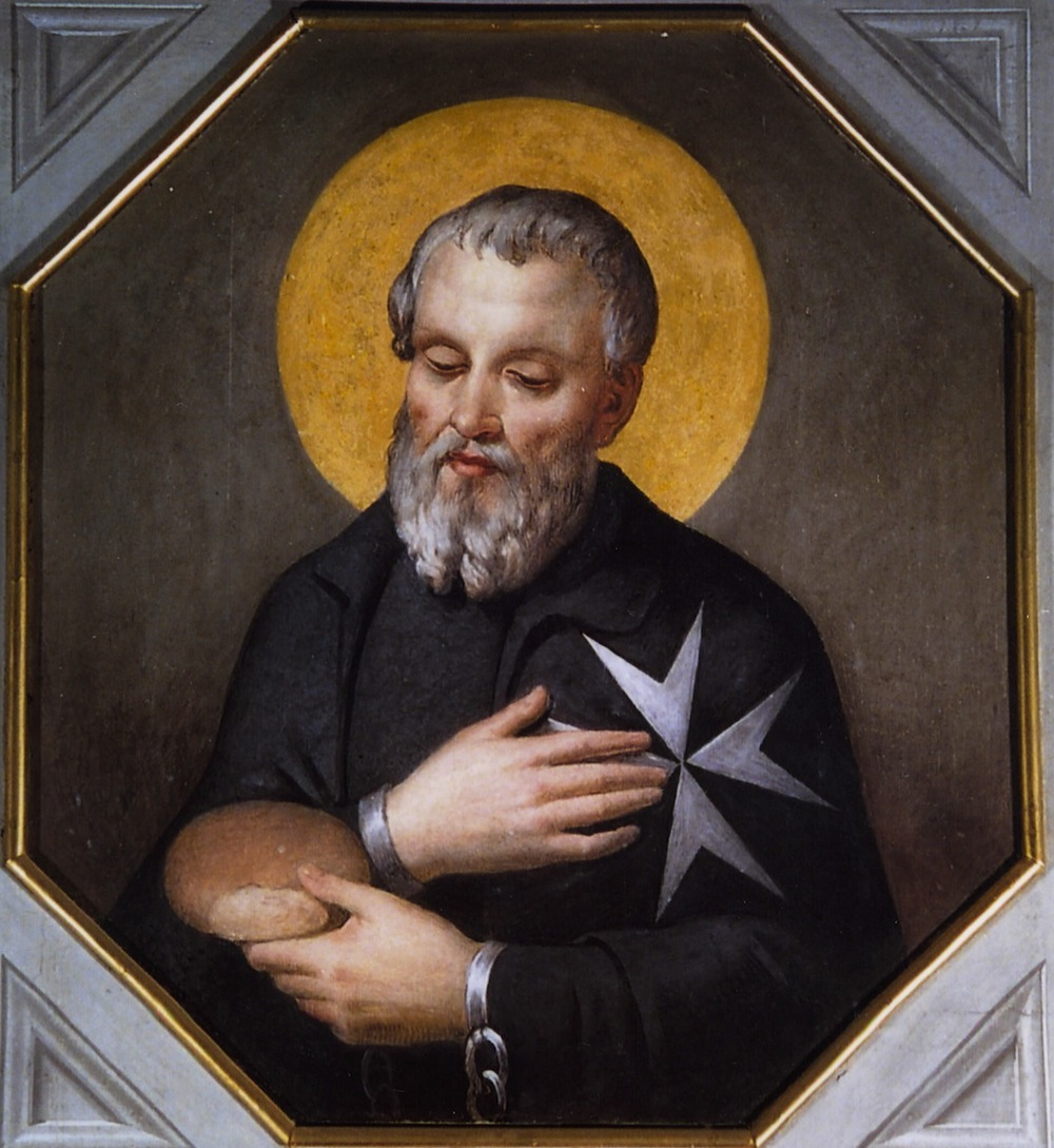 A fresco in the Chapel of the Grand Magistry in the Via Condotti in Rome that depicts Blessed Gérard (Beato Gherardo) chained with a loaf of bread in the left hand.